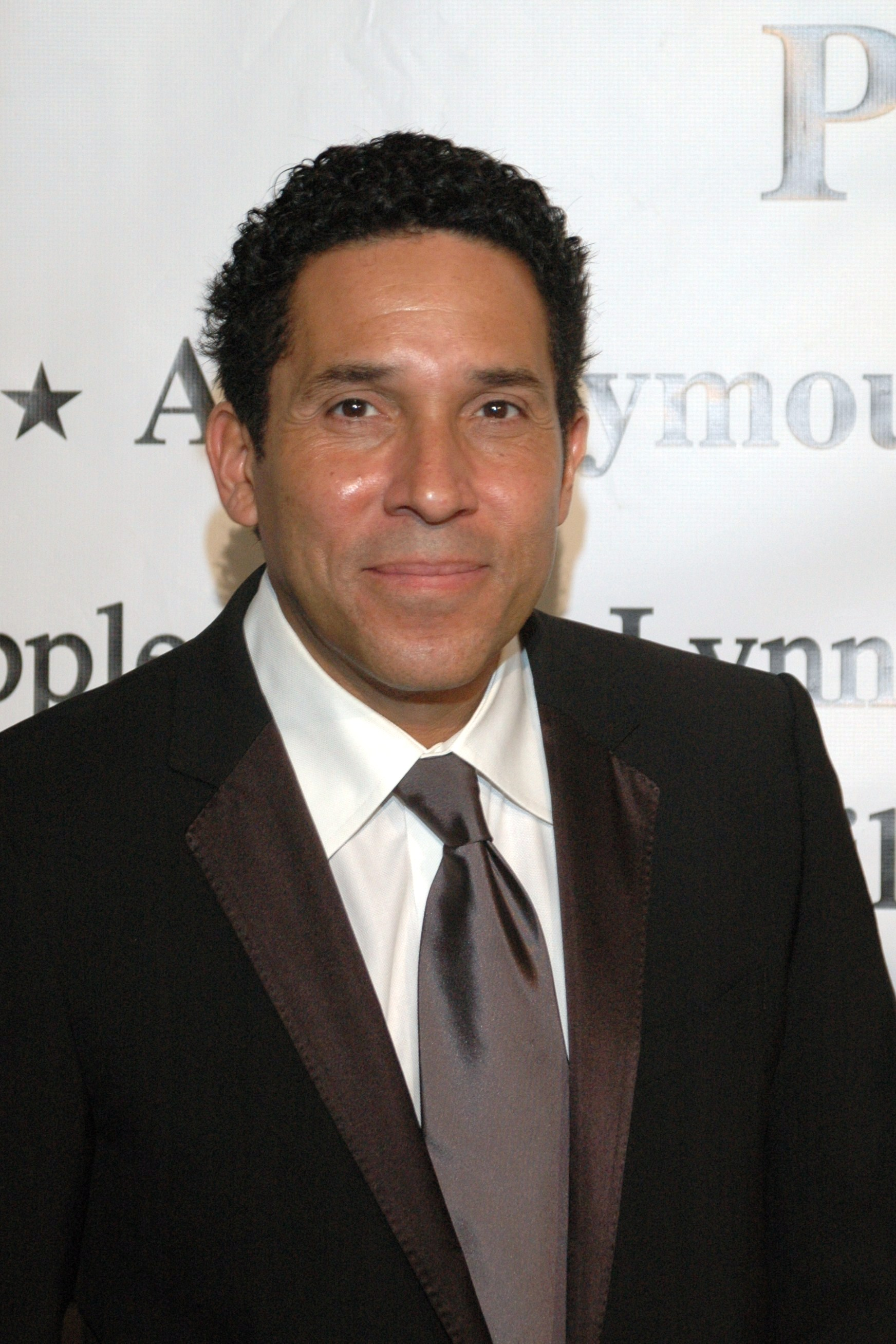 Oscar Nuñez on the Children Uniting Nations Academy Award Viewing Party red carpet, at the Beverly Hilton, Beverly Hills, Los Angeles, California. Held preceding the start of the Oscar telecast.